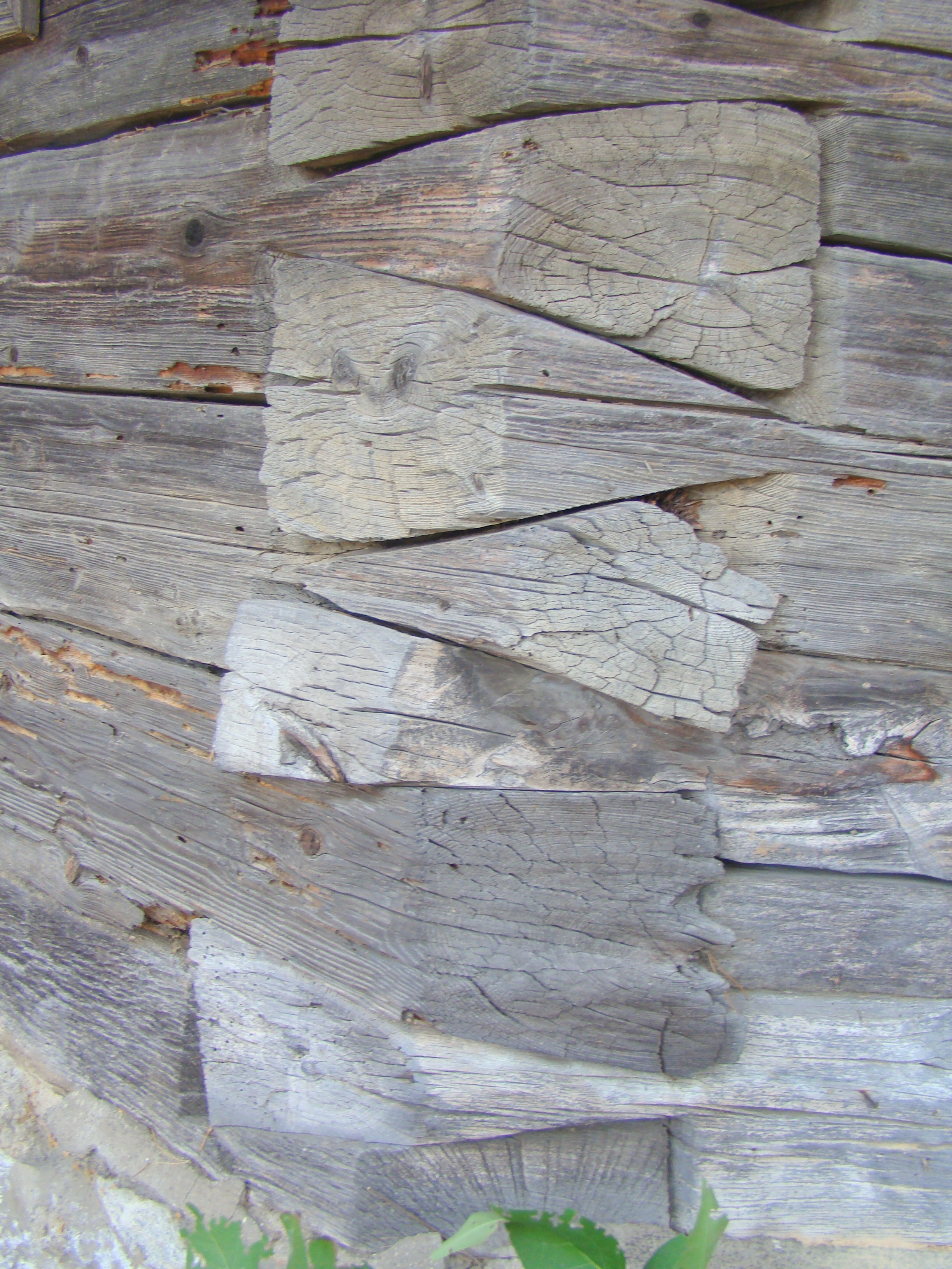 Wooden church in Curpen, Gorj county, Romania